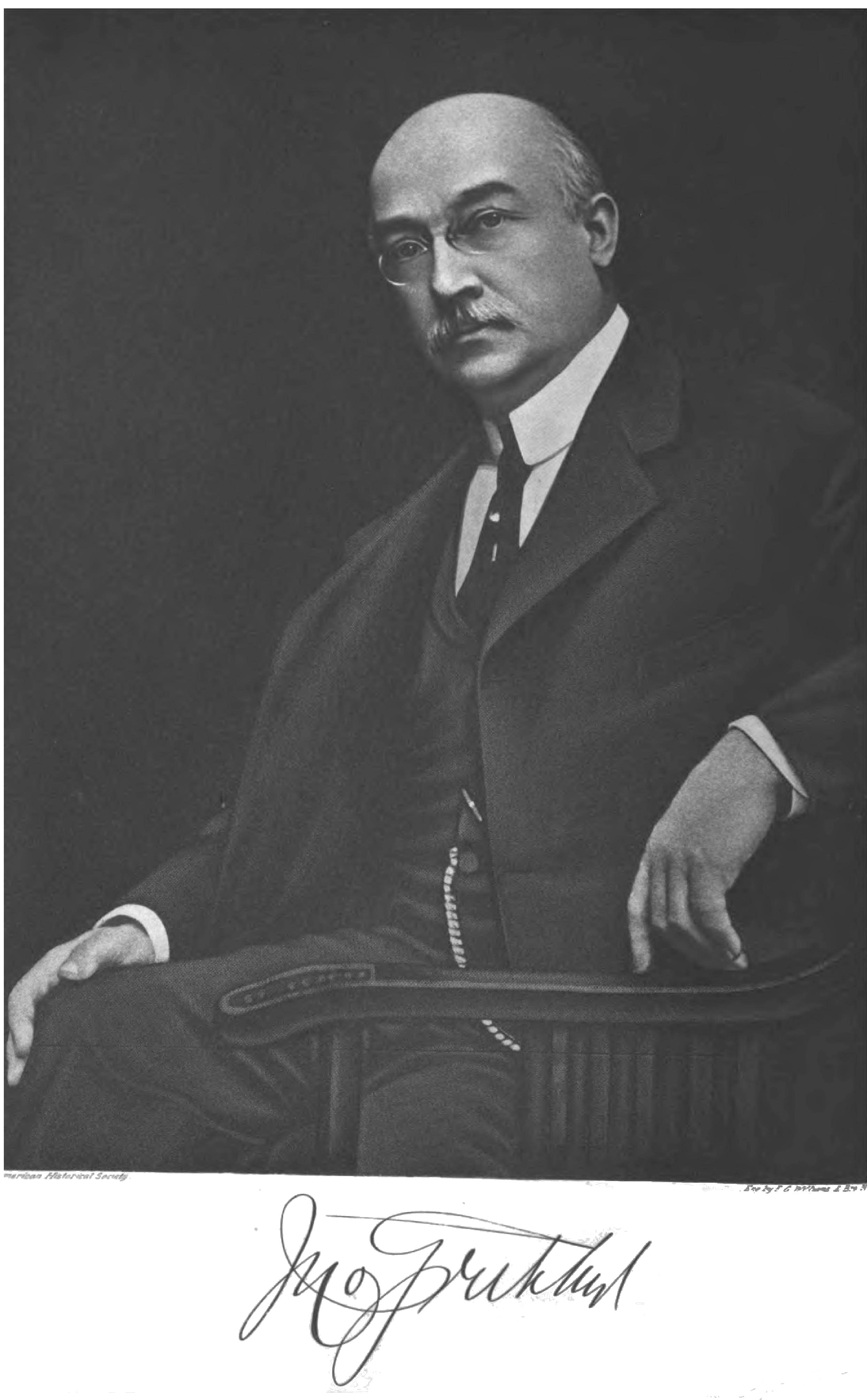 John Gribbel (March 29, 1858 – ?) was an American business and philanthropist